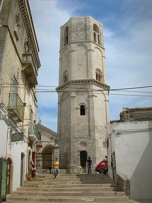 Saint-Michel church entry at Monte Sant'Angelo picture taken by user:Idéfix, july 2005